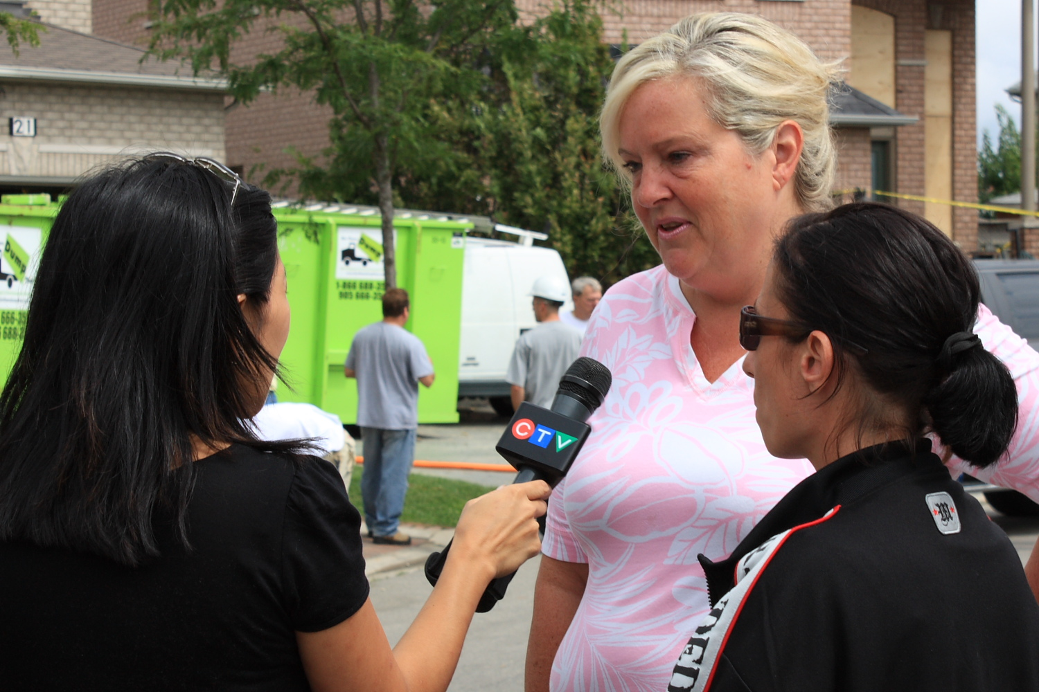 Vaughan Mayor Linda D. Jackson speaks about a recent tornado to a CTV News reporter on Burnhaven Ave in the community of Maple, a sub-district within the City of Vaughan.